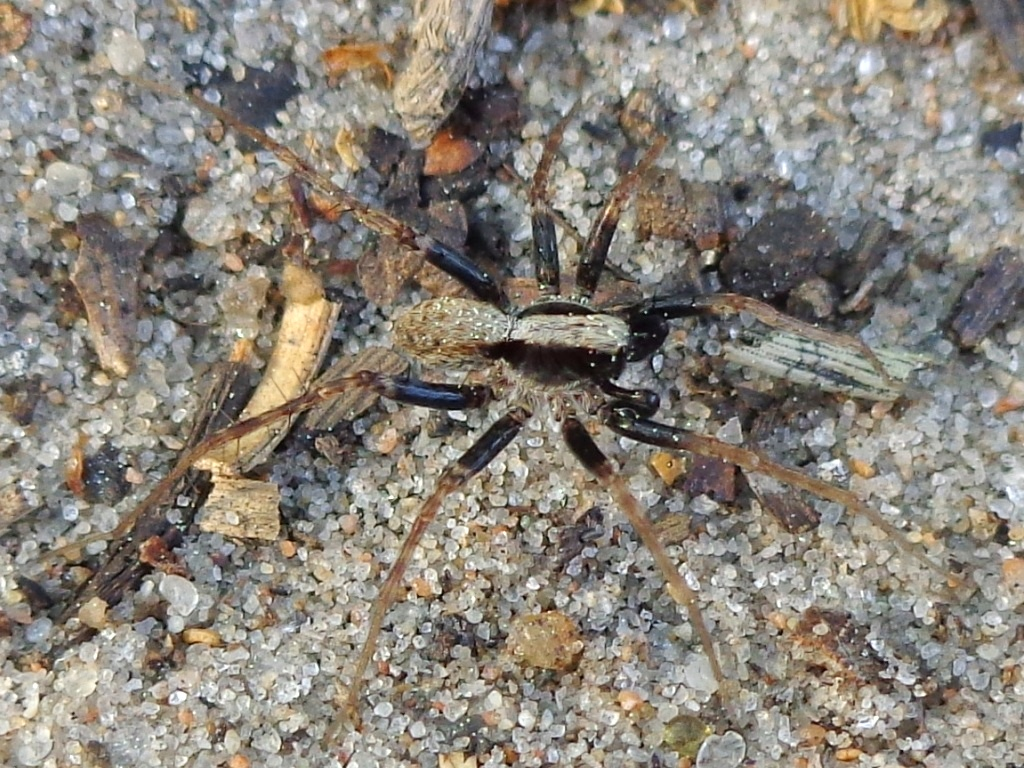 Pardosa lugubris. Found in Vakarbuļļi coast in Rīga town near Bolderaja, Latvia